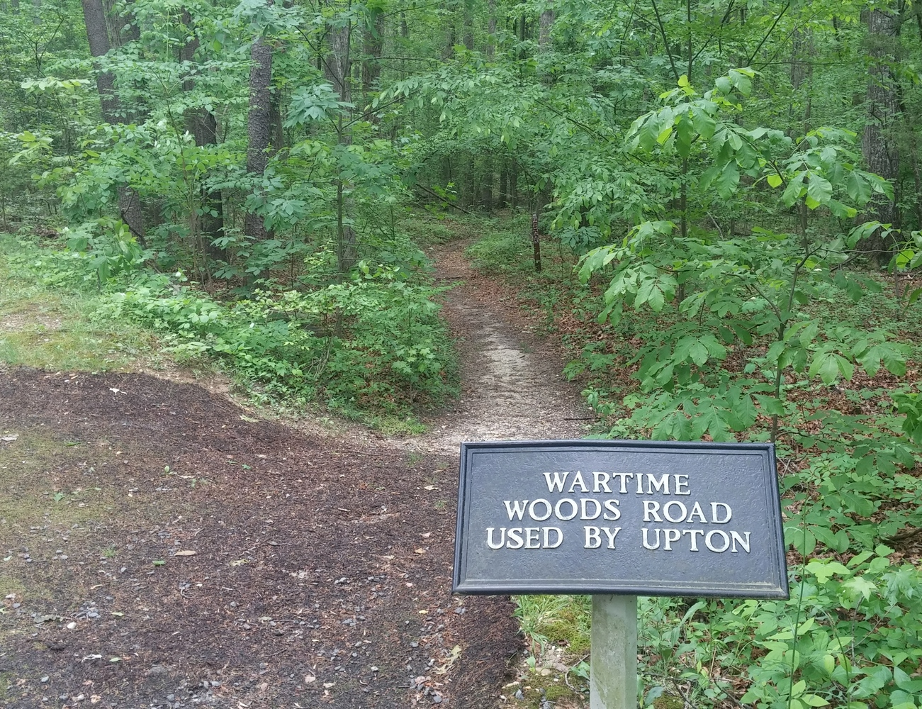 Woods road, used by Upton (Battle of Spotsylvania)